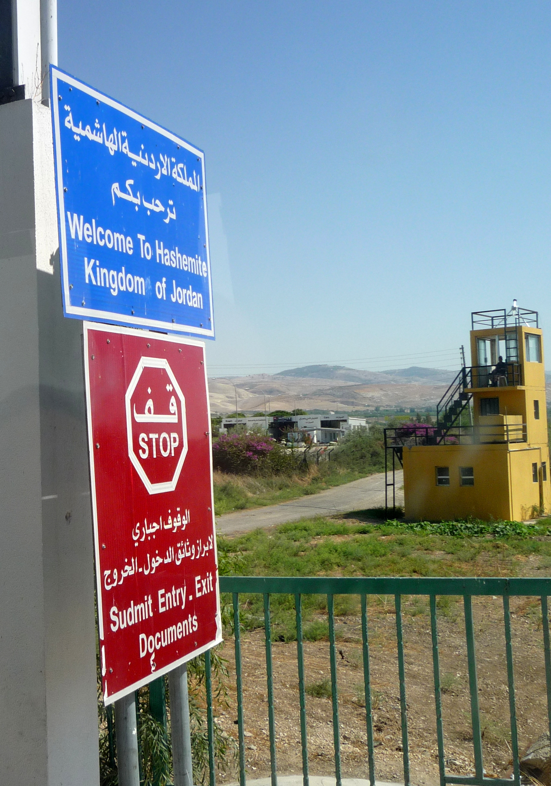 Jordan River Crossing